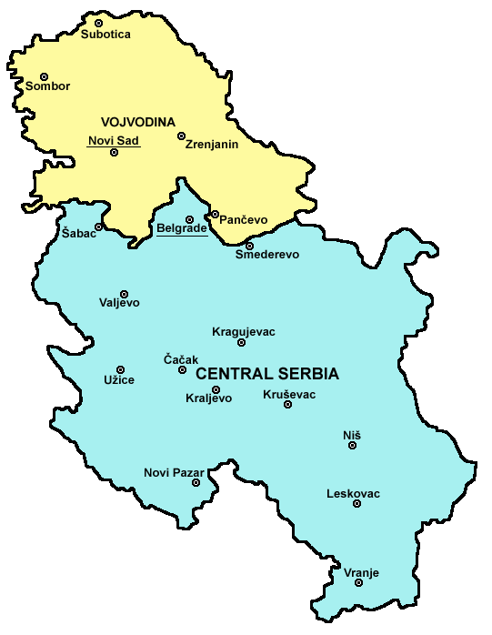 map of administrative divisions in Serbia, by the view of government of Kosovo and part of international community, from 2008 (when Kosovo declared independence) to 2009 (when Serbian authorities adopted a law that formed 5 new statistical regions in the territory formerly known as Central Serbia).